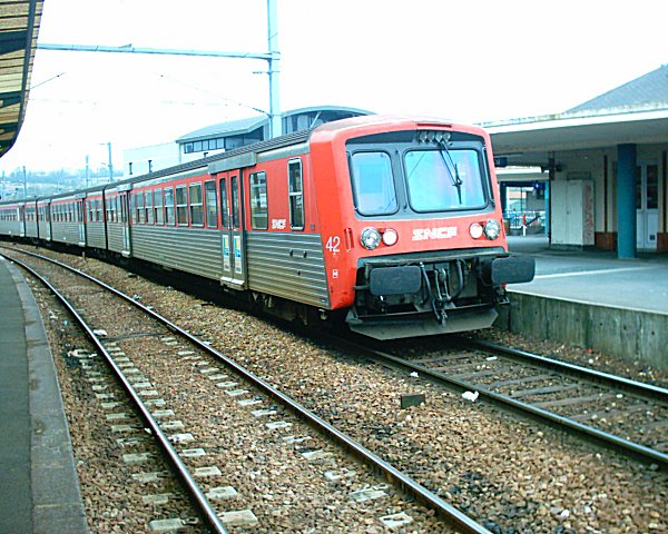 Platform C of the main station of Lisieux in 2005.